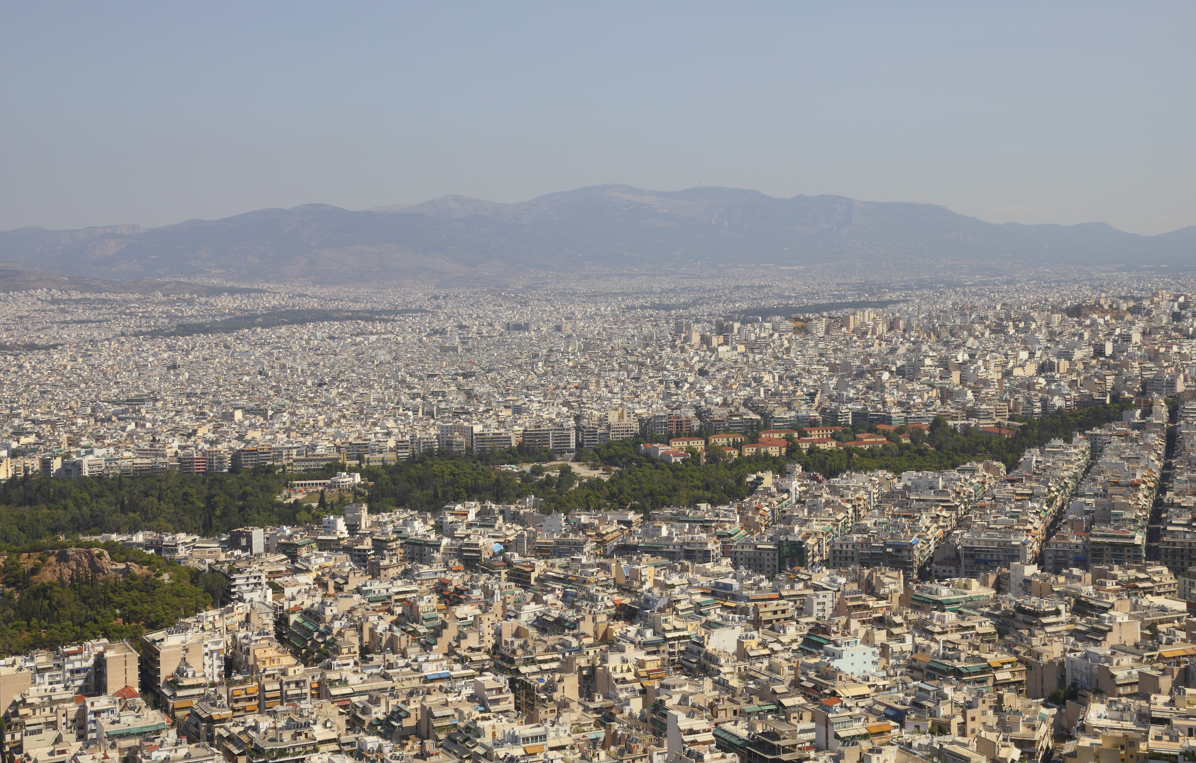 View from Lycabettus in Athens (Attica, Greece)